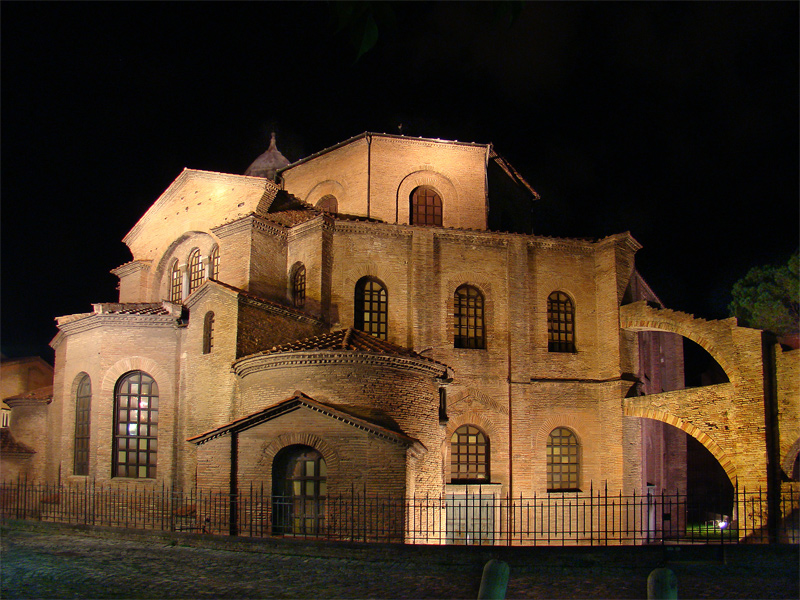 Basilica of San Vitale, Ravenna, Emilia-Romagna, Italy.